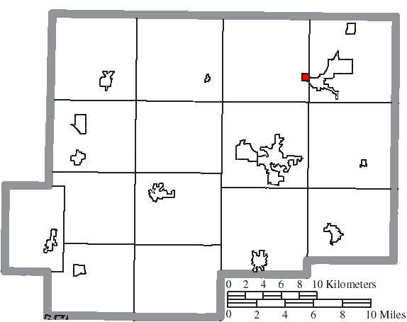 Map of the municipal and township boundaries of Putnam County, Ohio, United States, as of the 2000 census, with the location of the village of West Leipsic highlighted. Township borders are shown only in unincorporated areas in order to differentiate incorporated and unincorporated areas more clearly.